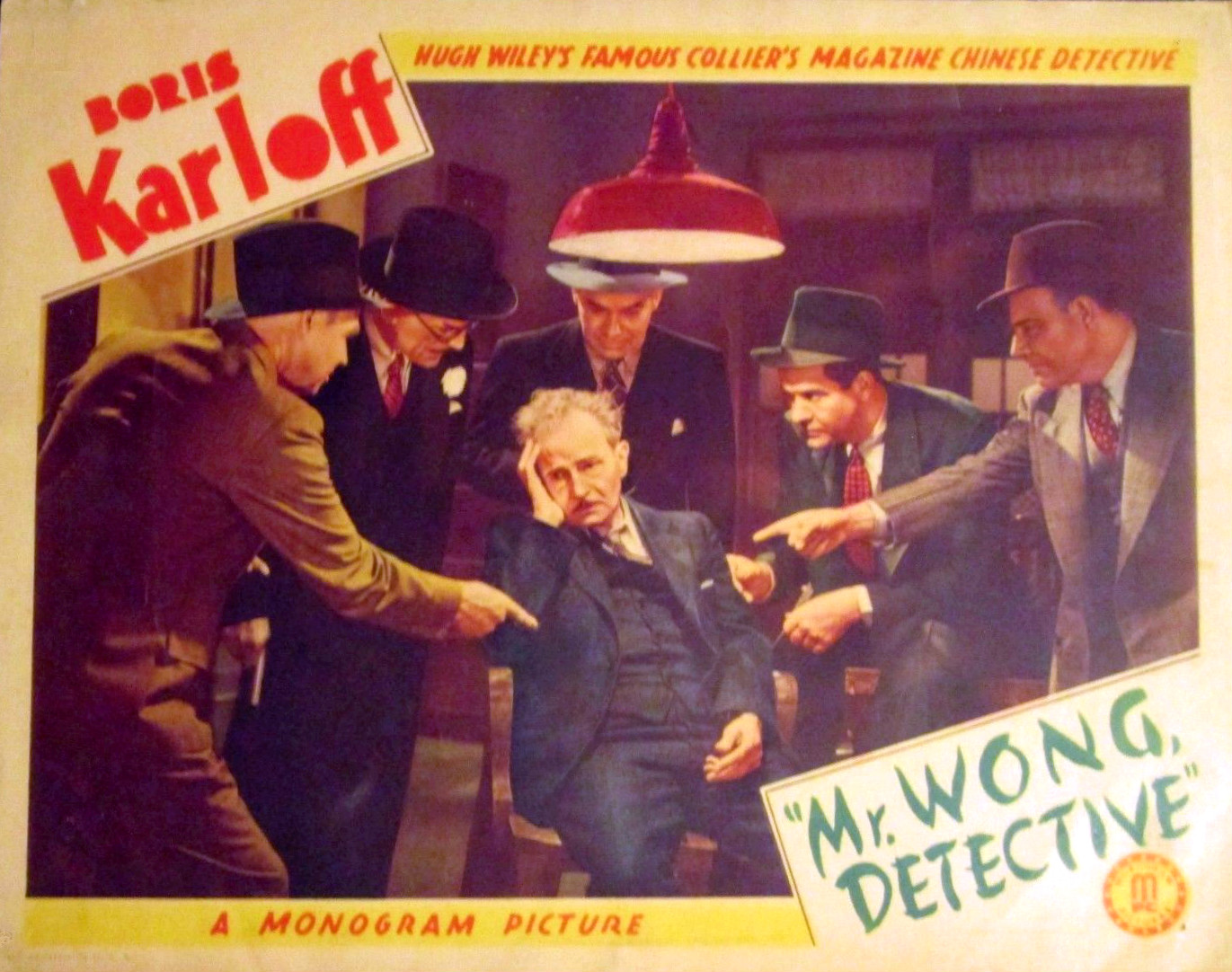 Lobby card for the American crime film Mr. Wong, Detective (1938). There are no copyright markings pertaining to the image as can be seen in the links above. At lower left is Country of origin USA.